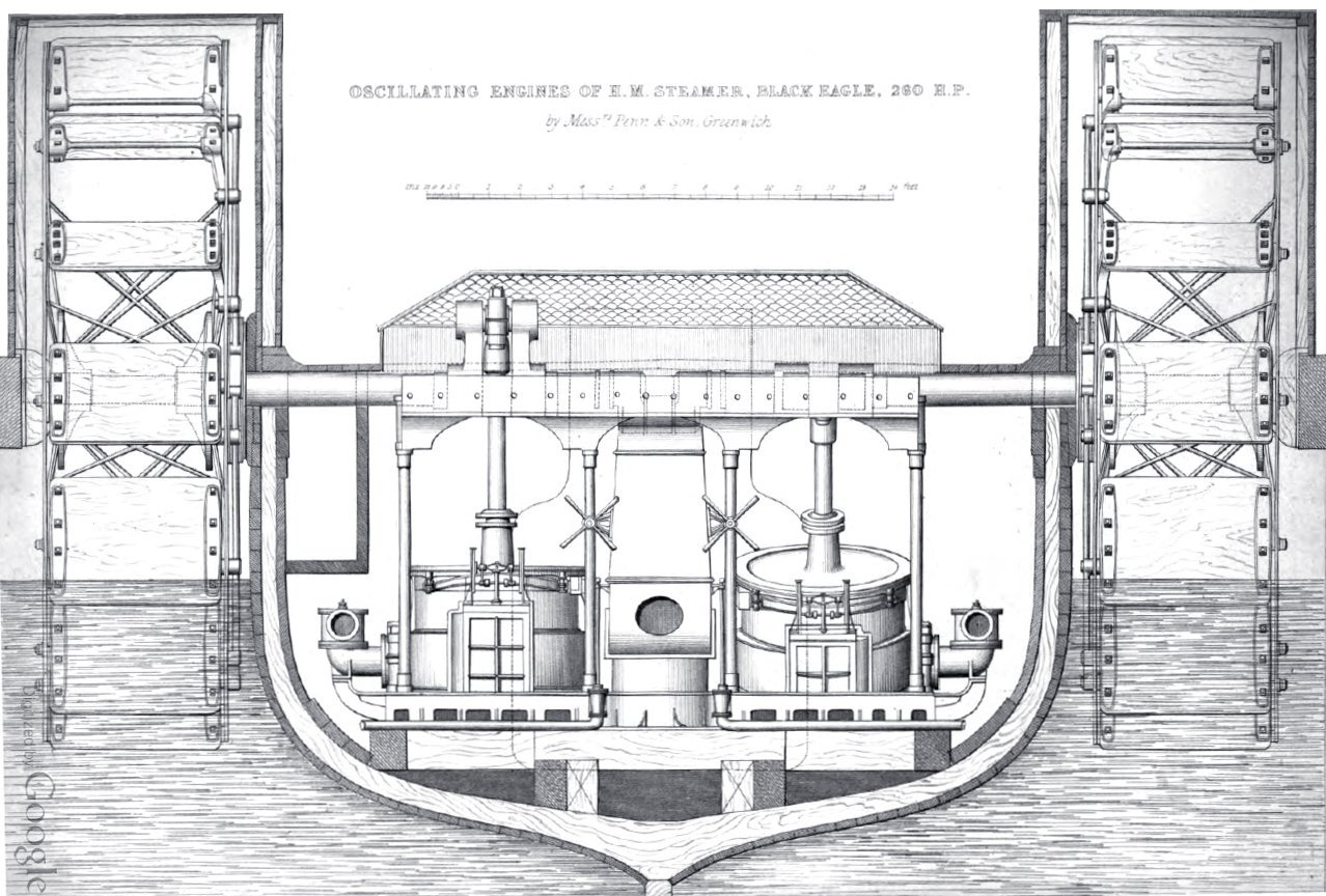 Transverse section through the hull of HMS Black Eagle, showing arrangement of the Penn oscillating engines to the crankshaft and paddlewheels.